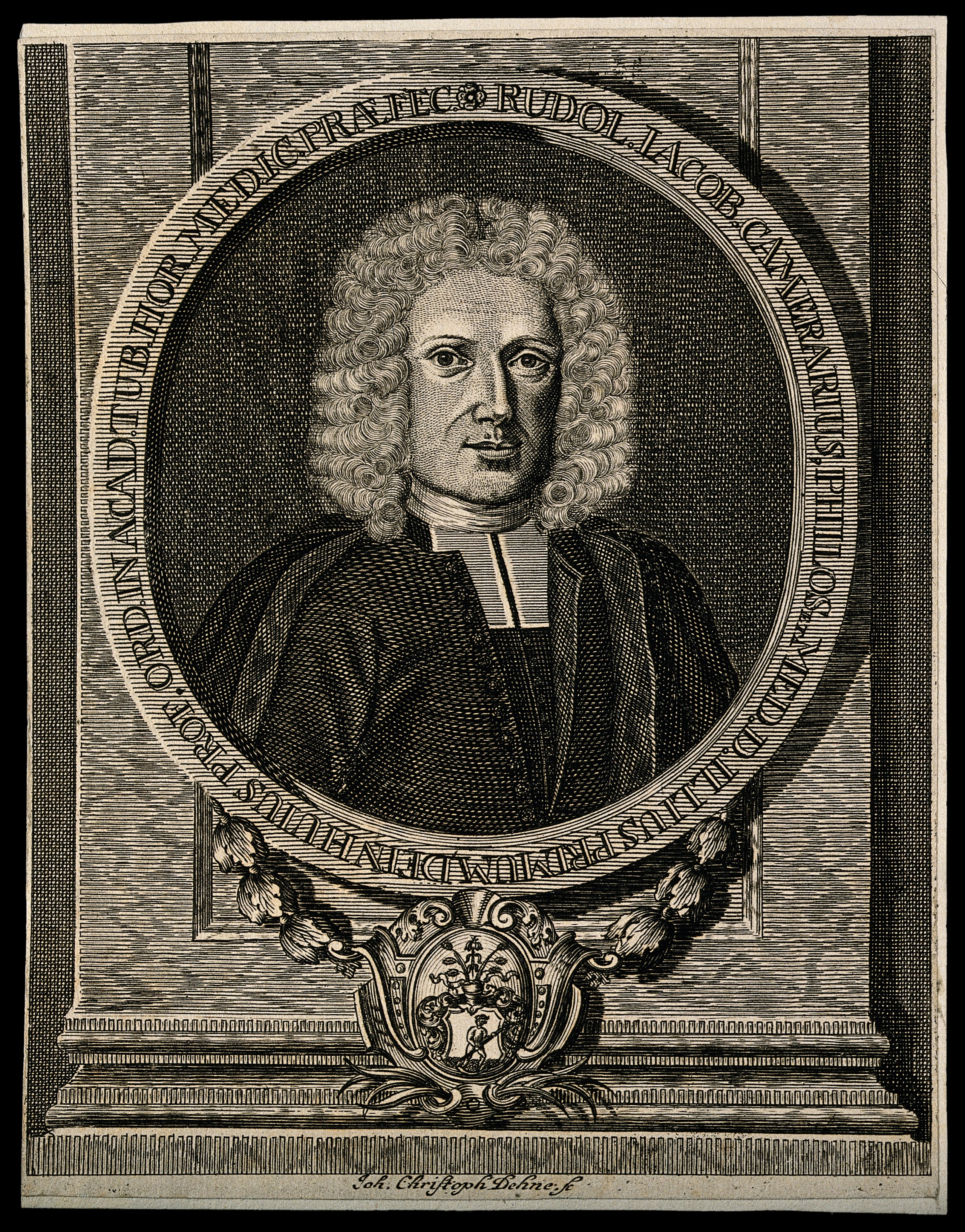 Rudolf Jacob Camerarius. Line engraving by J. C. Dehne. Iconographic Collections Keywords: portrait prints; camerarius, rudolf jakob, 1665; engravings; Rudolf Jakob Camerarius